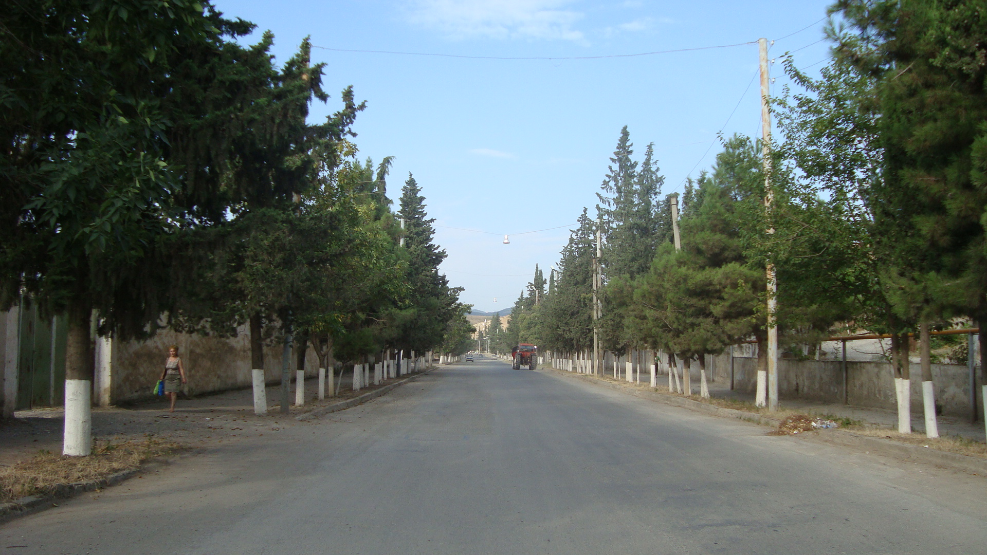 A main street. Martakert, Republic of Mountainous Karabakh (Artsakh).